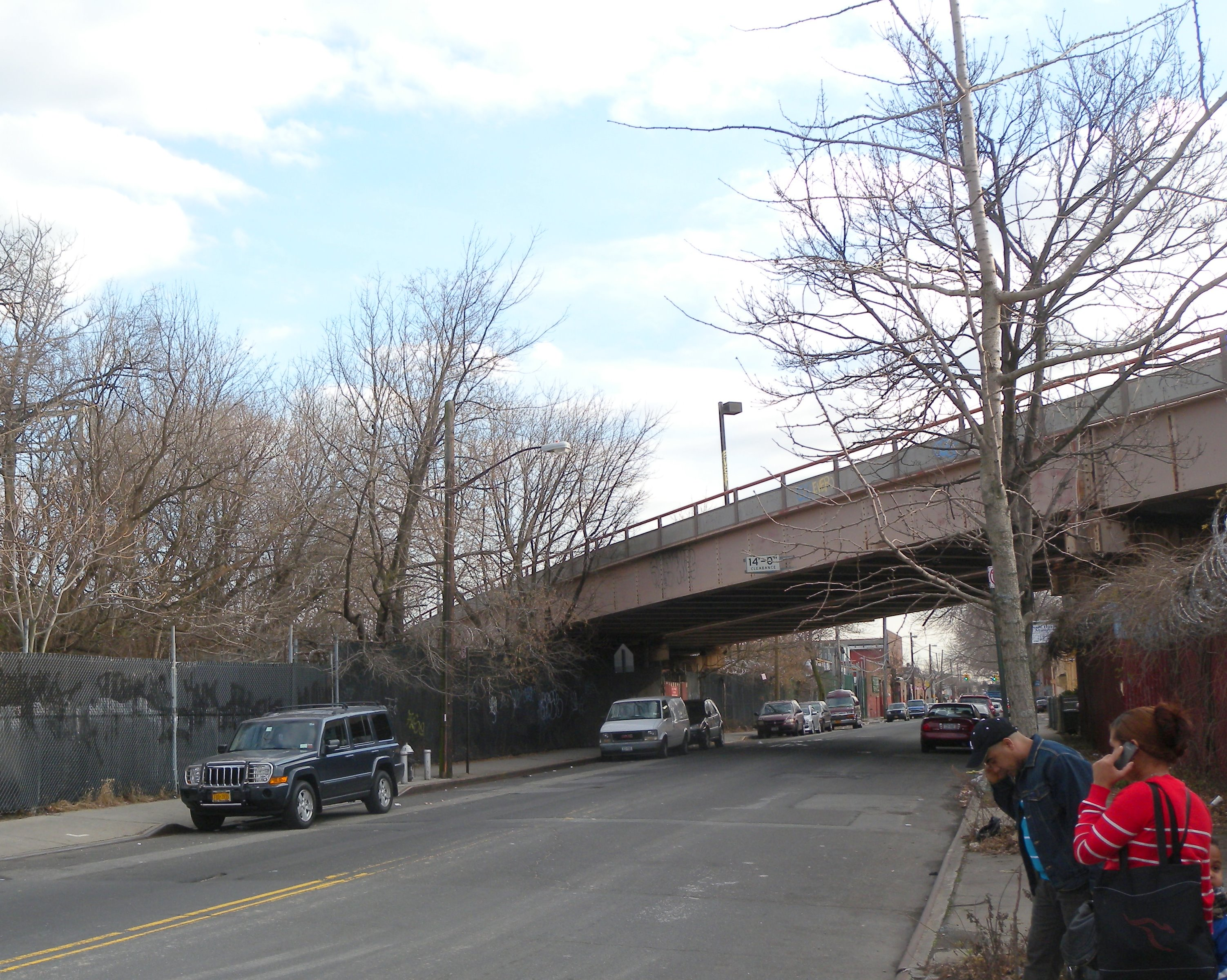 Looking south as BMT crosses 130th Street to run south alongside LIRR on a partly sunny afternoon.